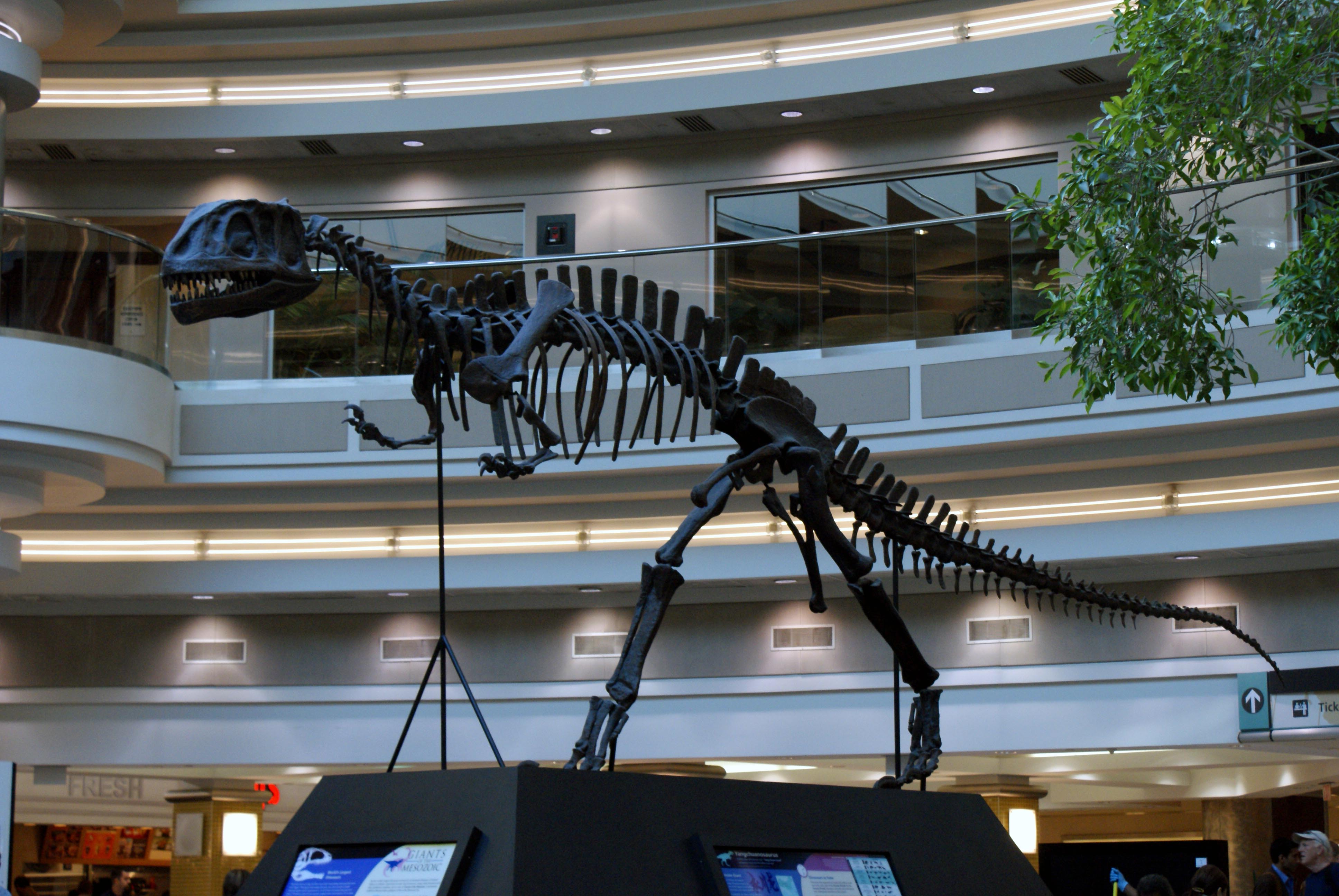 Replica of a 33-foot-long dinosaur in the atrium of the Hartsfield-Jackson International airport in Atlanta, GA.